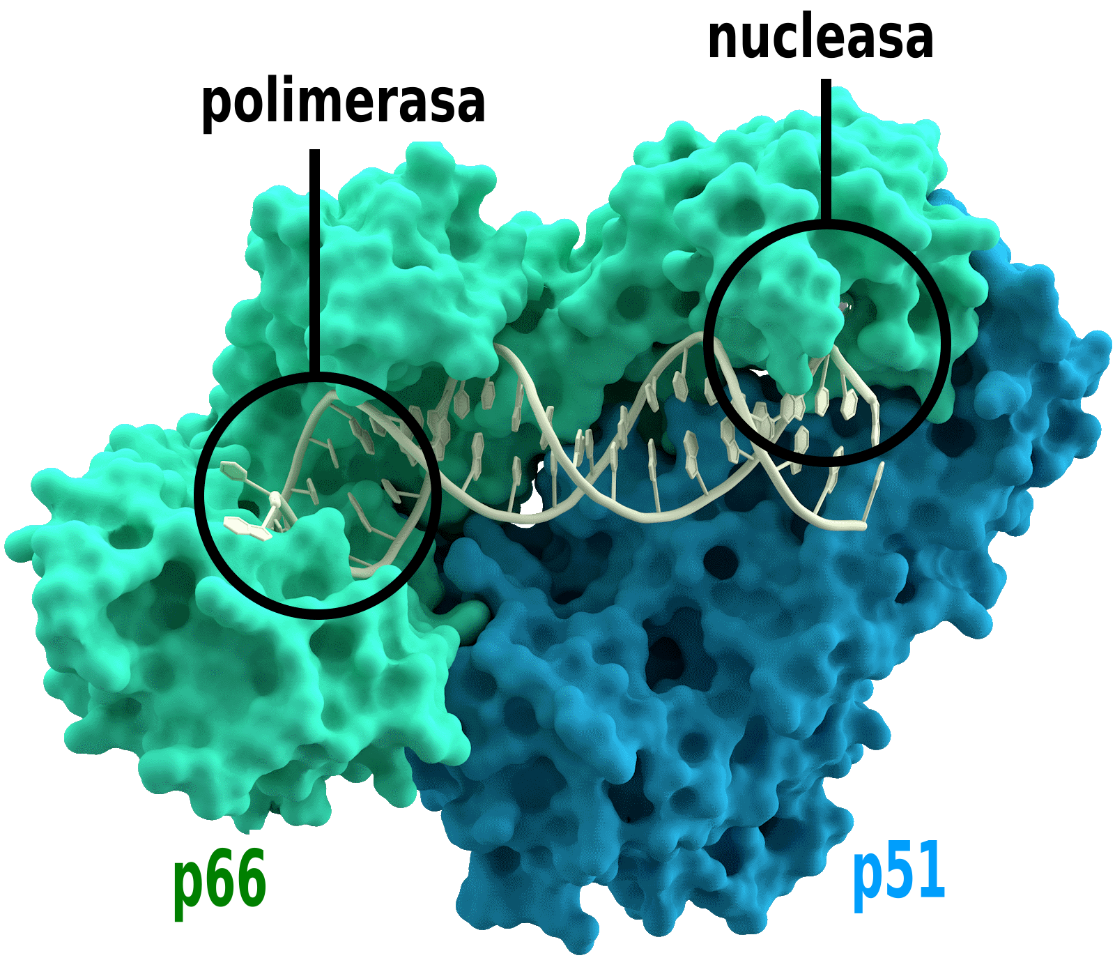 Surface representation of the crystal structure of wild-type HIV-1 Reverse Transcriptase, based on PDB 3KLF. The active sites of polymerase and RNase are highlighted.